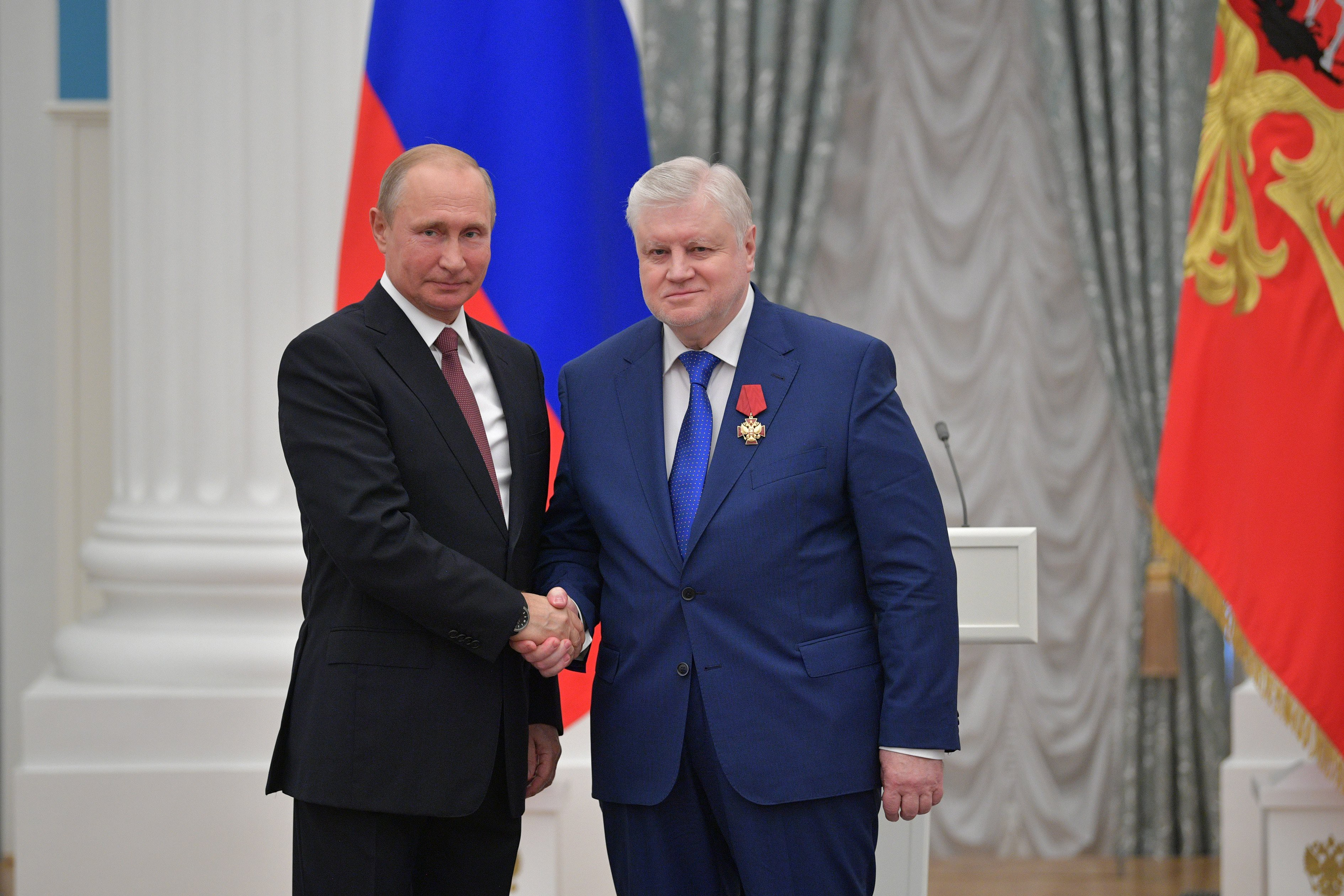 Vladimir Putin and Sergey Mironov at award ceremonies 27 Jun 2018, Kremlin, Moscow.